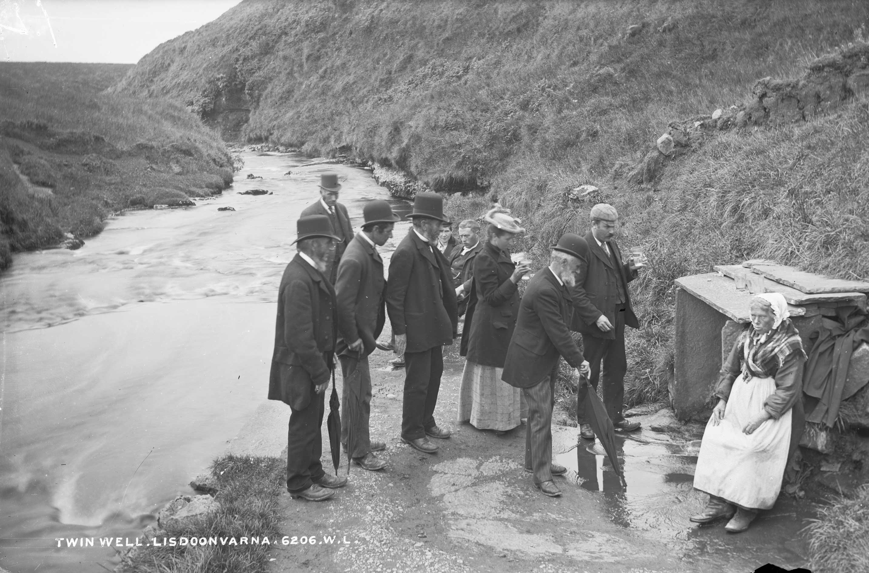 A group taking the waters at the Twin Wells on the banks of the River Aille at Lisdoonvarna, Co. Clare. Lisdoonvarna is Ireland's only Spa town, and the healthy benefits of the water were noted as early as 1740. Date: Circa 1900 NLI Ref.: L_CAB_06206